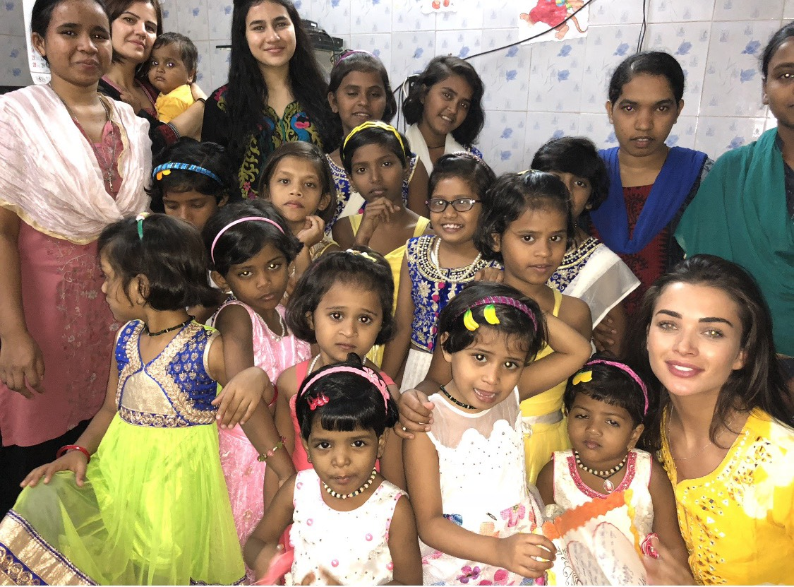 Amy Jackson with the kids of Sneha Sagar Orphanage in Mumbai in 2016